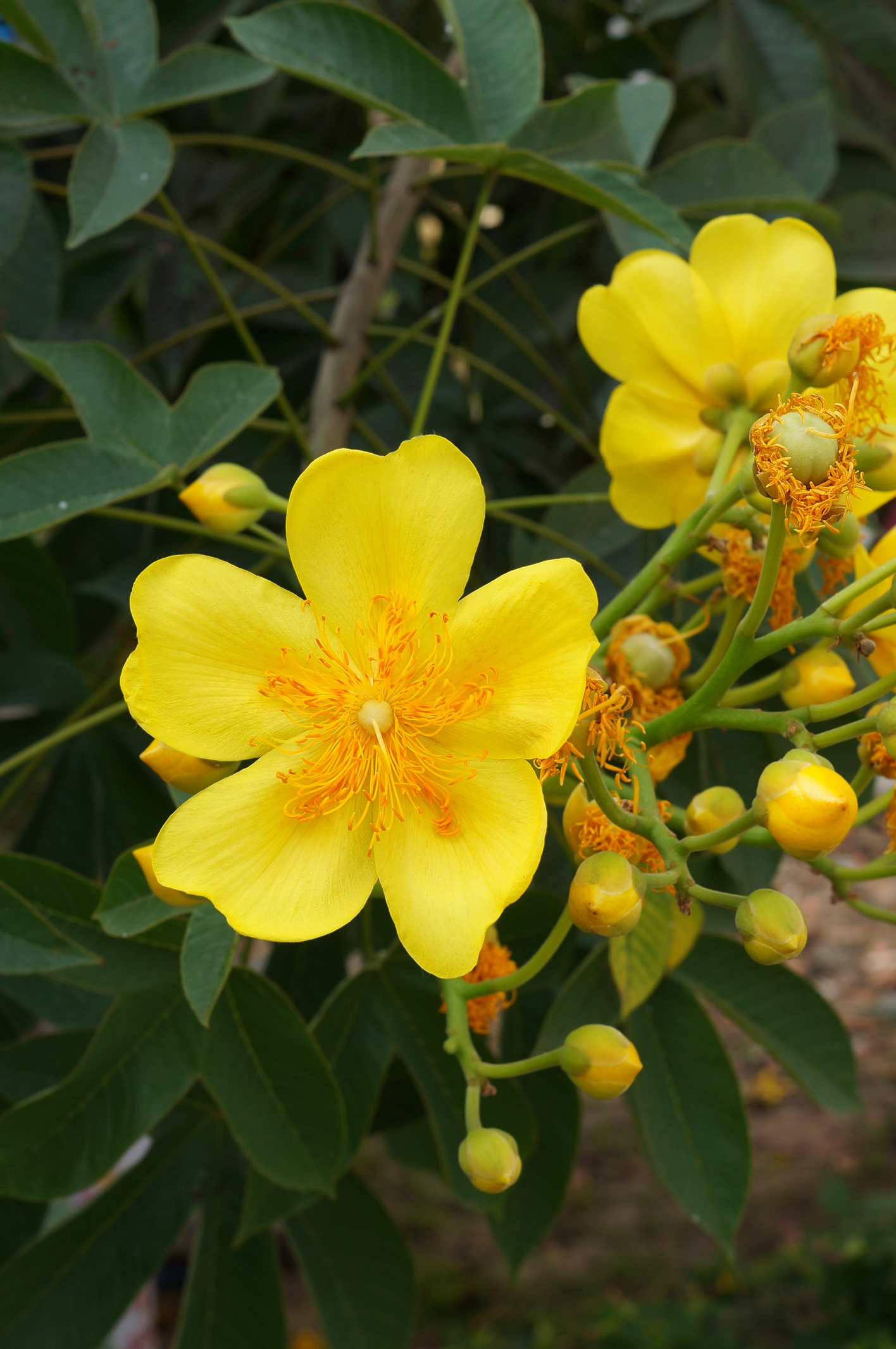 Silk-Cotton tree, buttercup tree